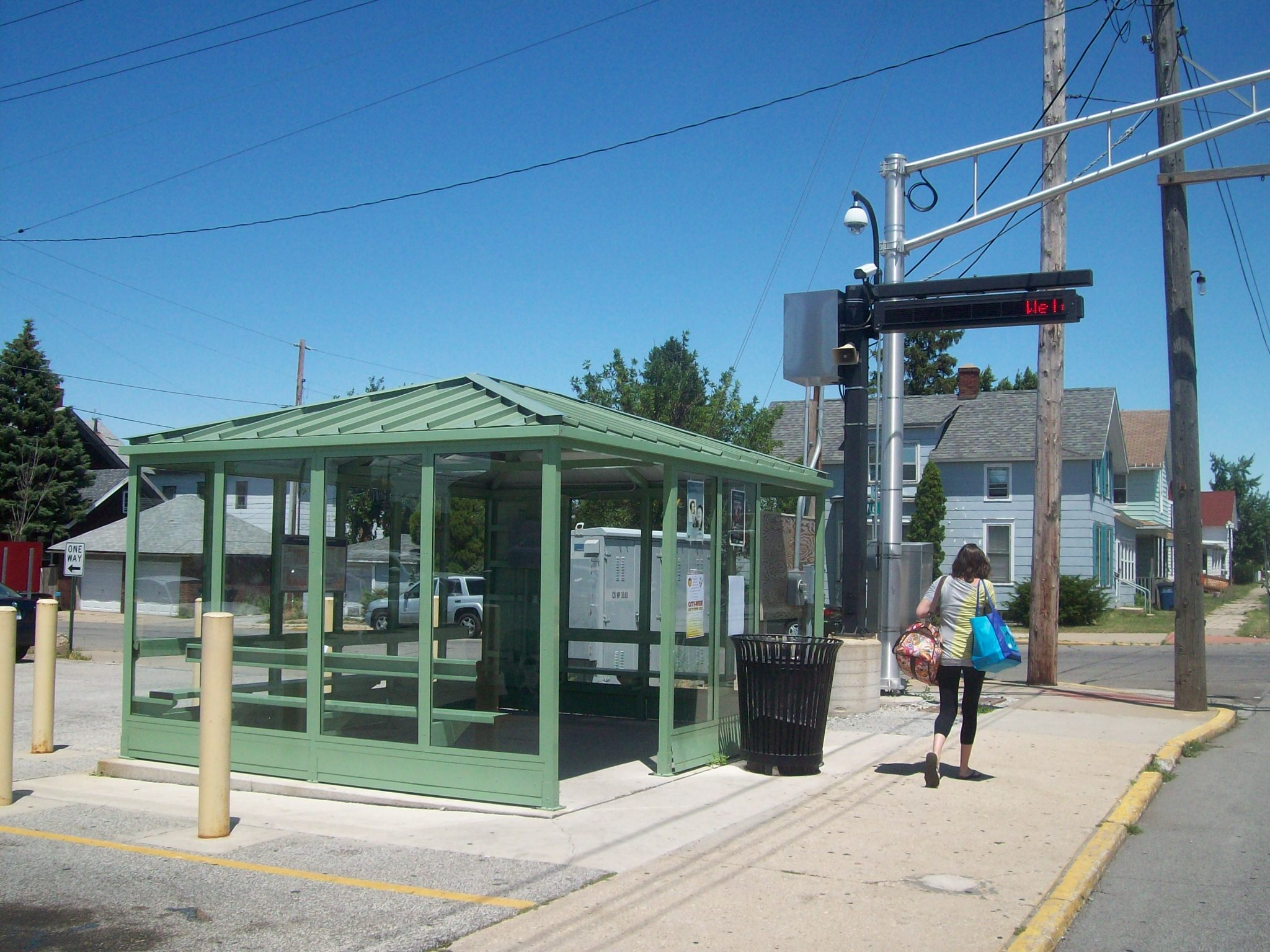 Photo of NICTD 11th Street station